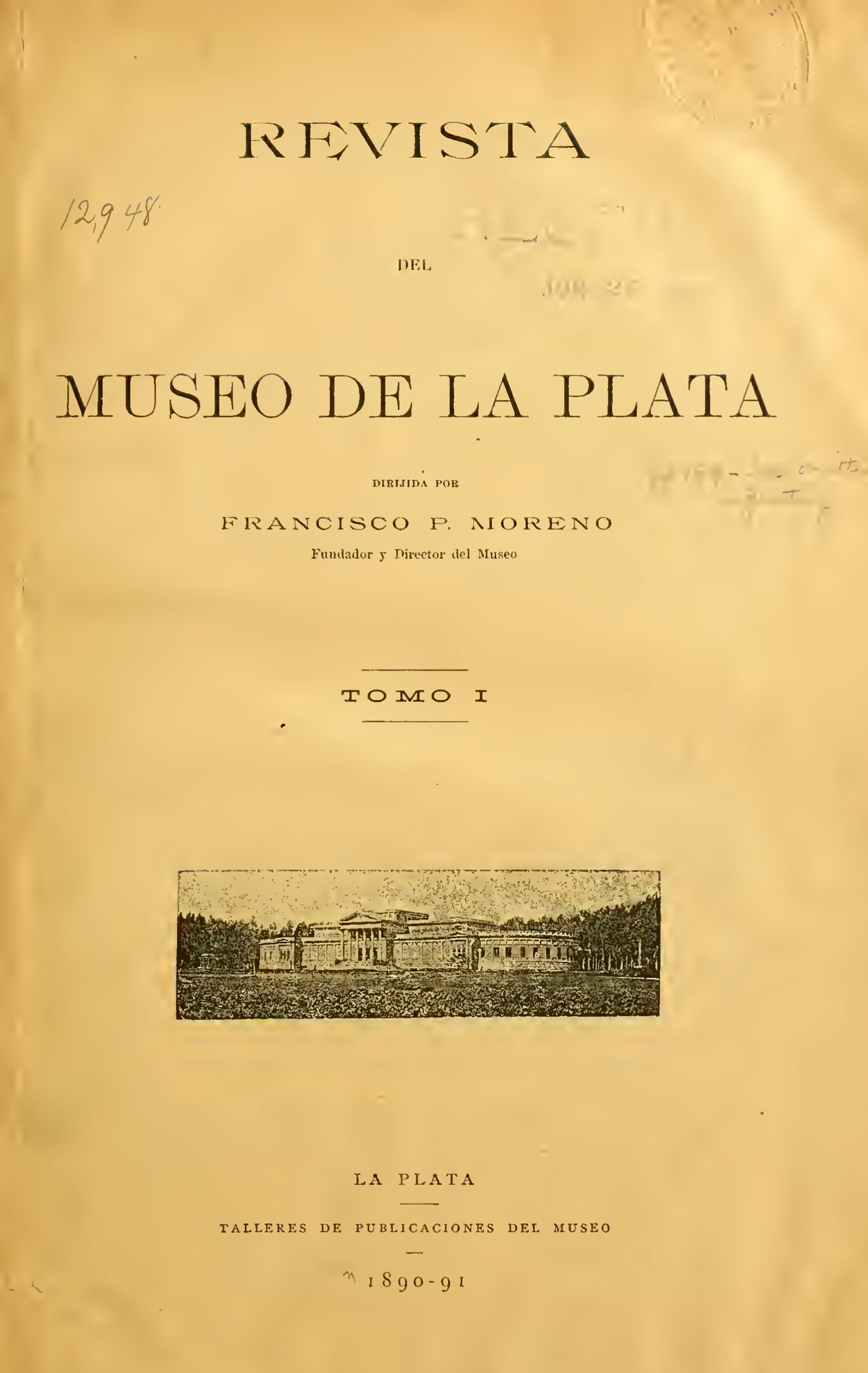 Cover photo of the first printed element of the Revista del Museo de La Plata.